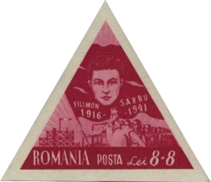 Filimon Sârbu, Romanian worker, communist, anti-fascist (1961-1951) see Filimon Sârbu